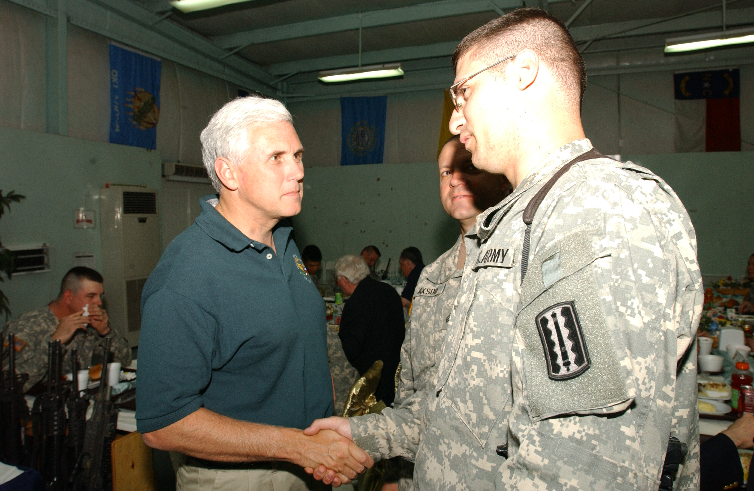 Representative Mike Pence meets with Soldiers from the 172nd Stryker Brigade Combat Team during his brief visit to Logistical Staging Area Diamondback, Mosul, Iraq.